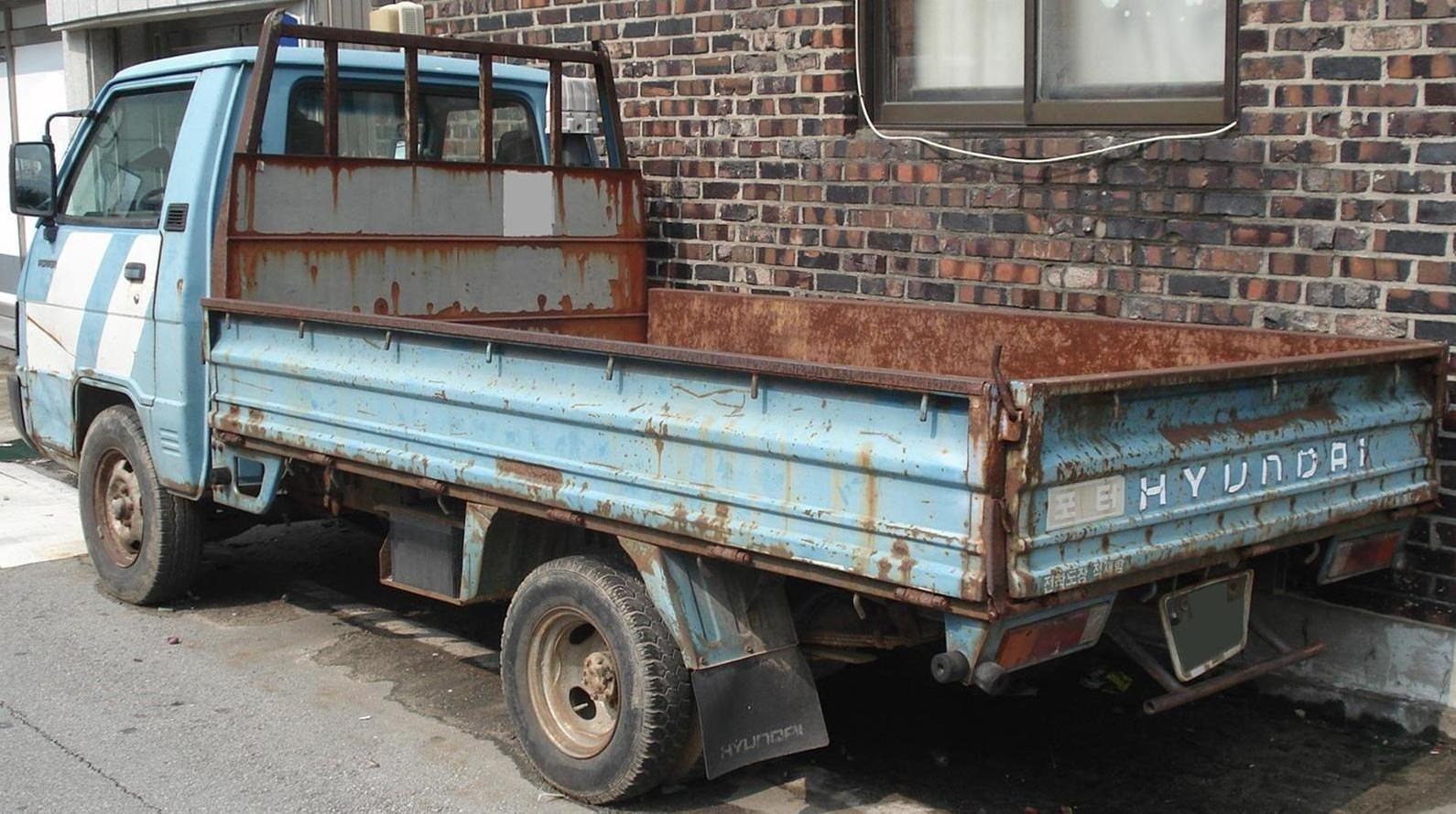 Hyundai Porter